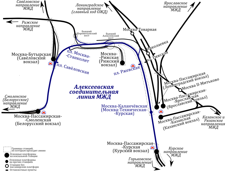 Alekseyevskaya trunk (Moscow) map